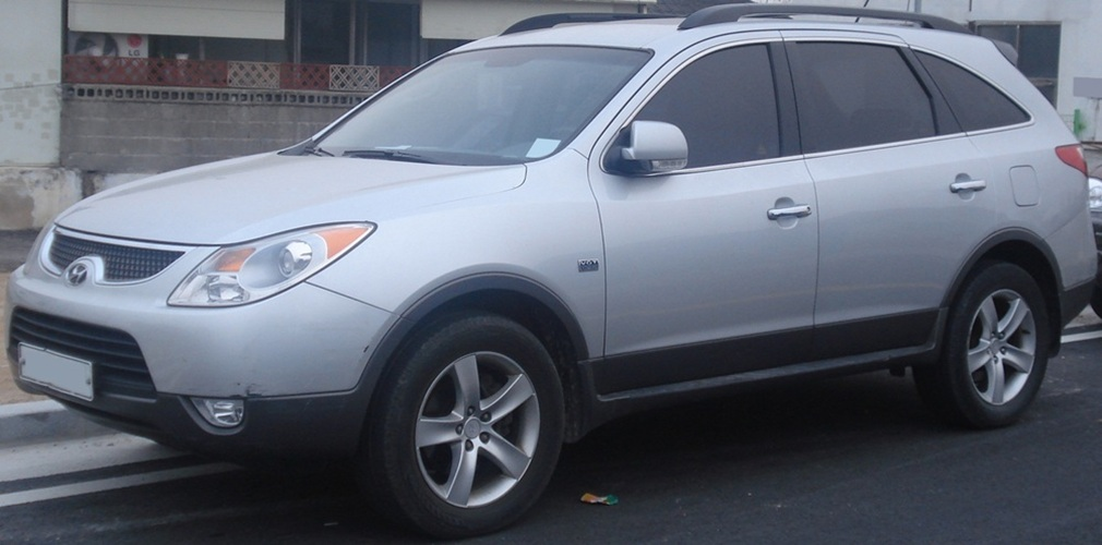 Hyundai Veracruz